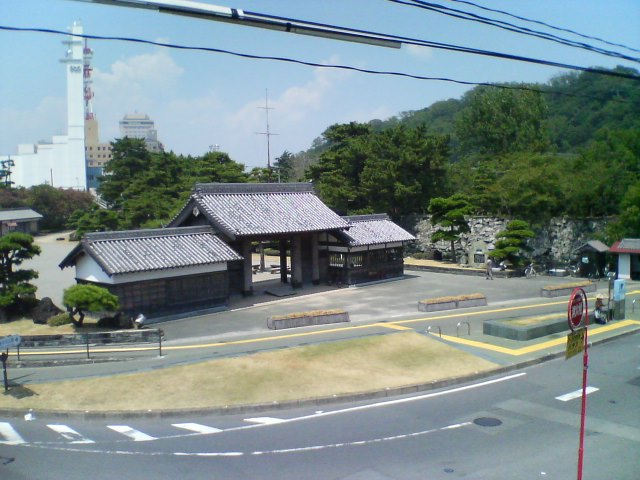 Washi-no-mon (鷲の門, the Eagle Gate) of Tokushima Castle, Tokushima, Japan